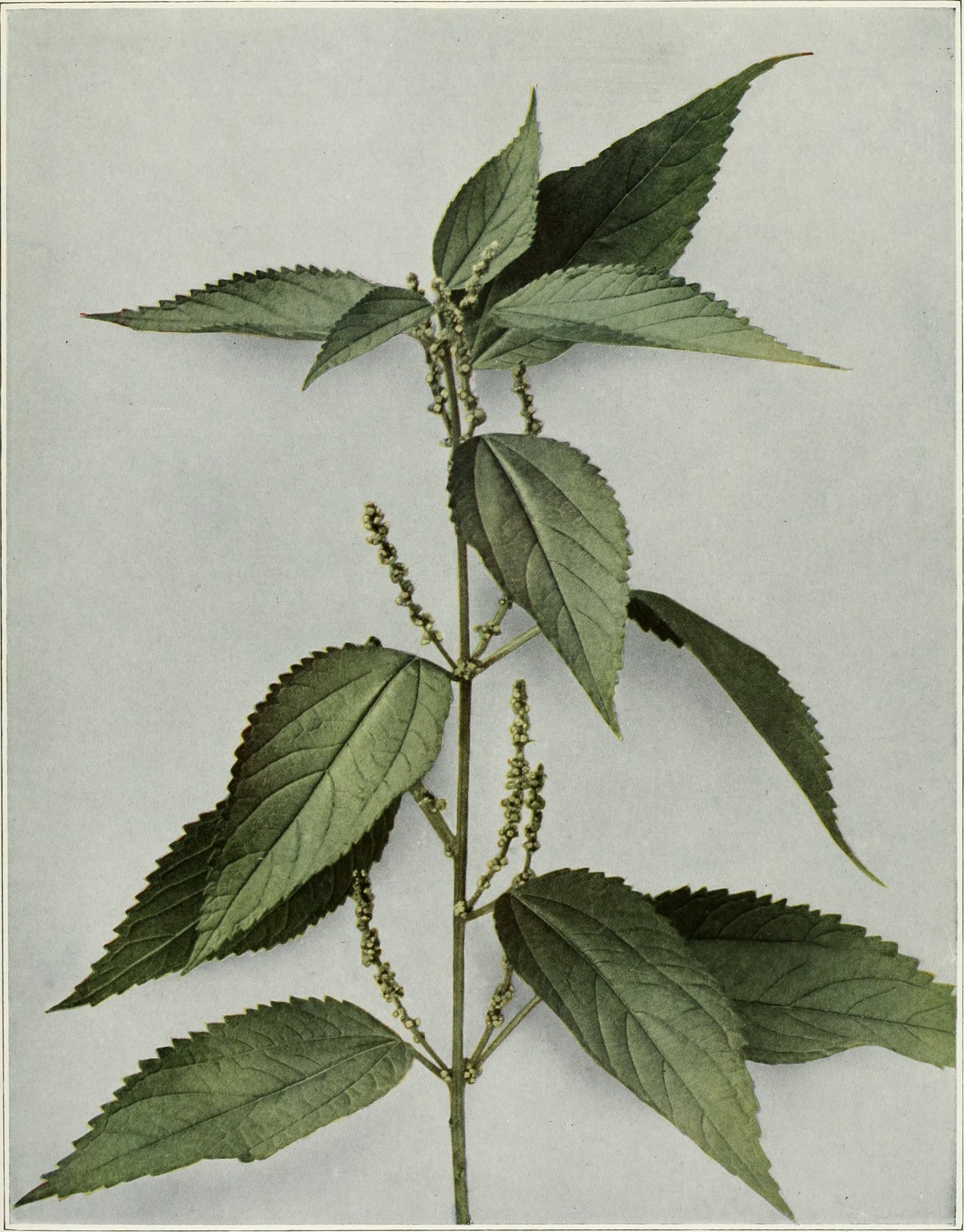 Title: Annual report Year: c1904-1920 (c190s) Authors: New York State Museum; University of the State of New York Subjects: New York State Museum; Science -- New York (State); Plants -- New York (State); Animals -- New York (State) Publisher: Albany, N. Y. : University of the State of New York Text Appearing Before Image: WILD FLOWERS OF NEW YORK Memoir 15 N. Y. State Museum Plate 45 Text Appearing After Image: FALSE NETTLE Boehmeria cylindrica